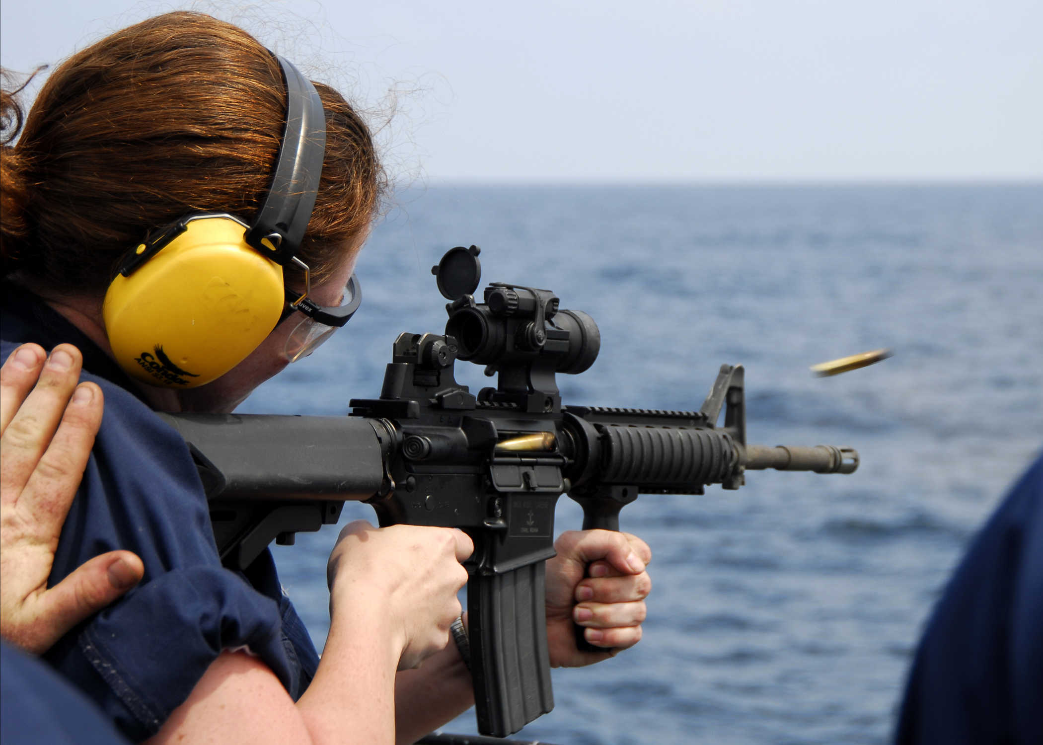 ATLANTIC OCEAN (July 25, 2008) Fire Controlman Seaman Rachel Hubley fires an M4 carbine from the fantail of the guided-missile cruiser USS Vella Gulf (CG 72). Vella Gulf is participating in Joint Task Force Exercise (JTFEX) 08-4 as a part of the Iwo Jima Expeditionary Strike Group. (U.S. Navy photo by Mass Communication Specialist Seaman Chad R. Erdmann/Released)